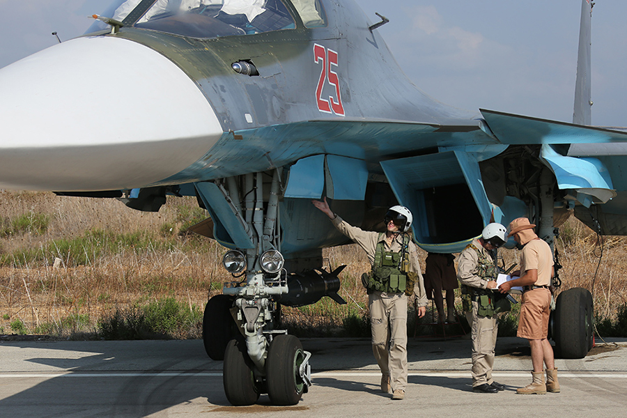 Performing checks on Sukhoi Su-34 at Latakia, Syria